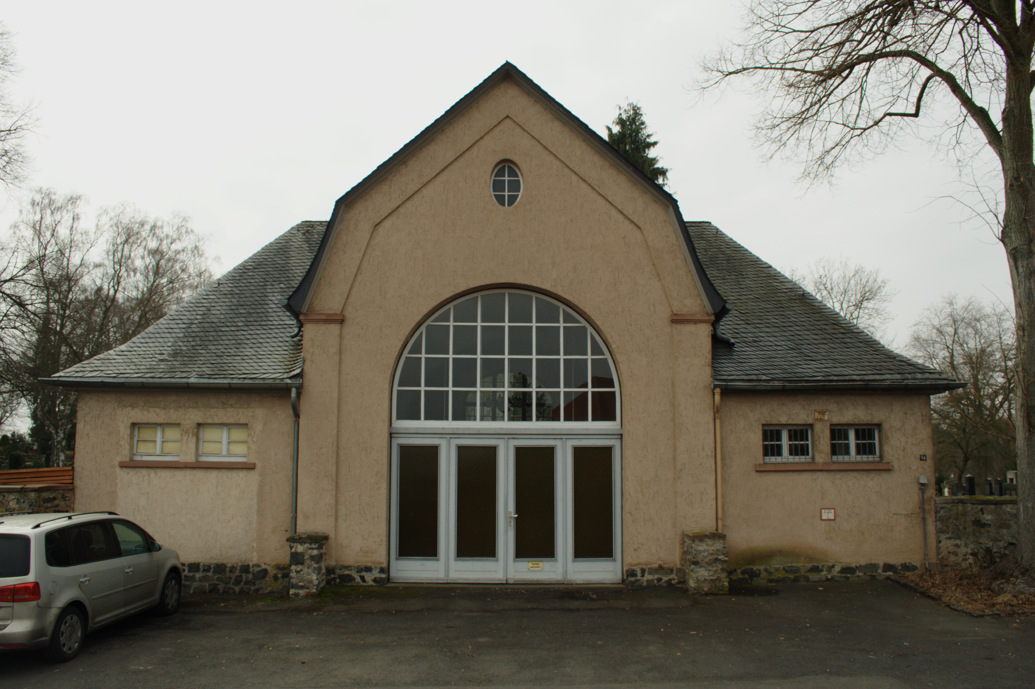 Cultural heritage monument in Germany Hesse Alsfeld - Address: AufdemFrauenberg Leichenhaus